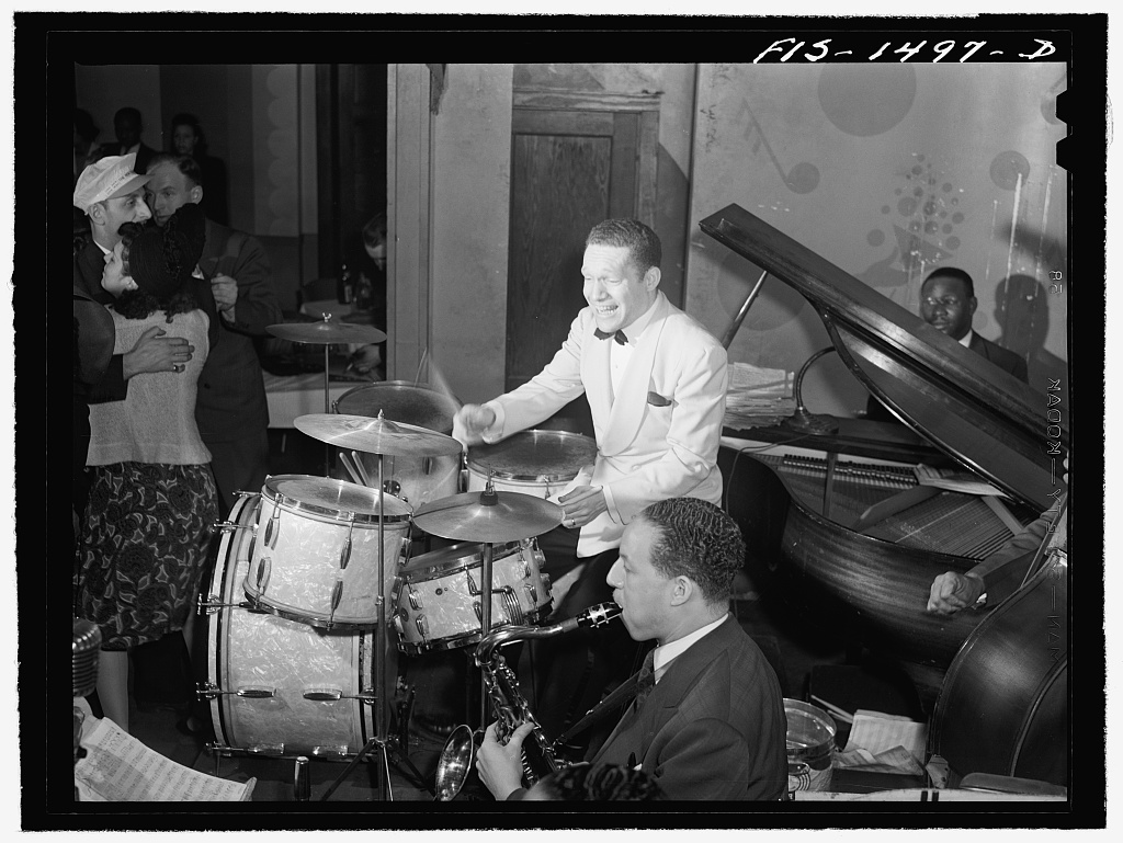 Mistakenly spelled "Sounders"